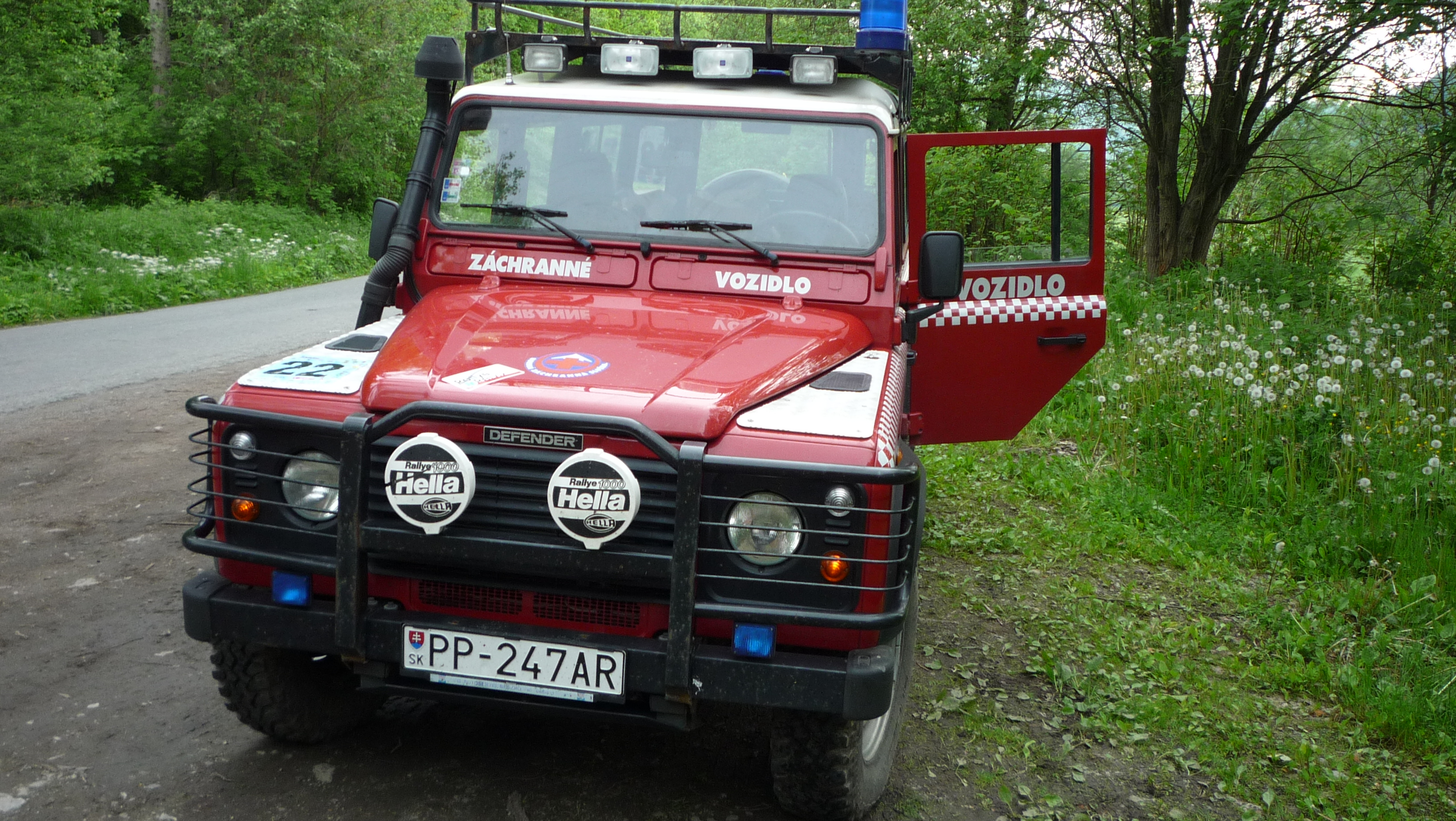 Mountain Rescue Service Slovakia